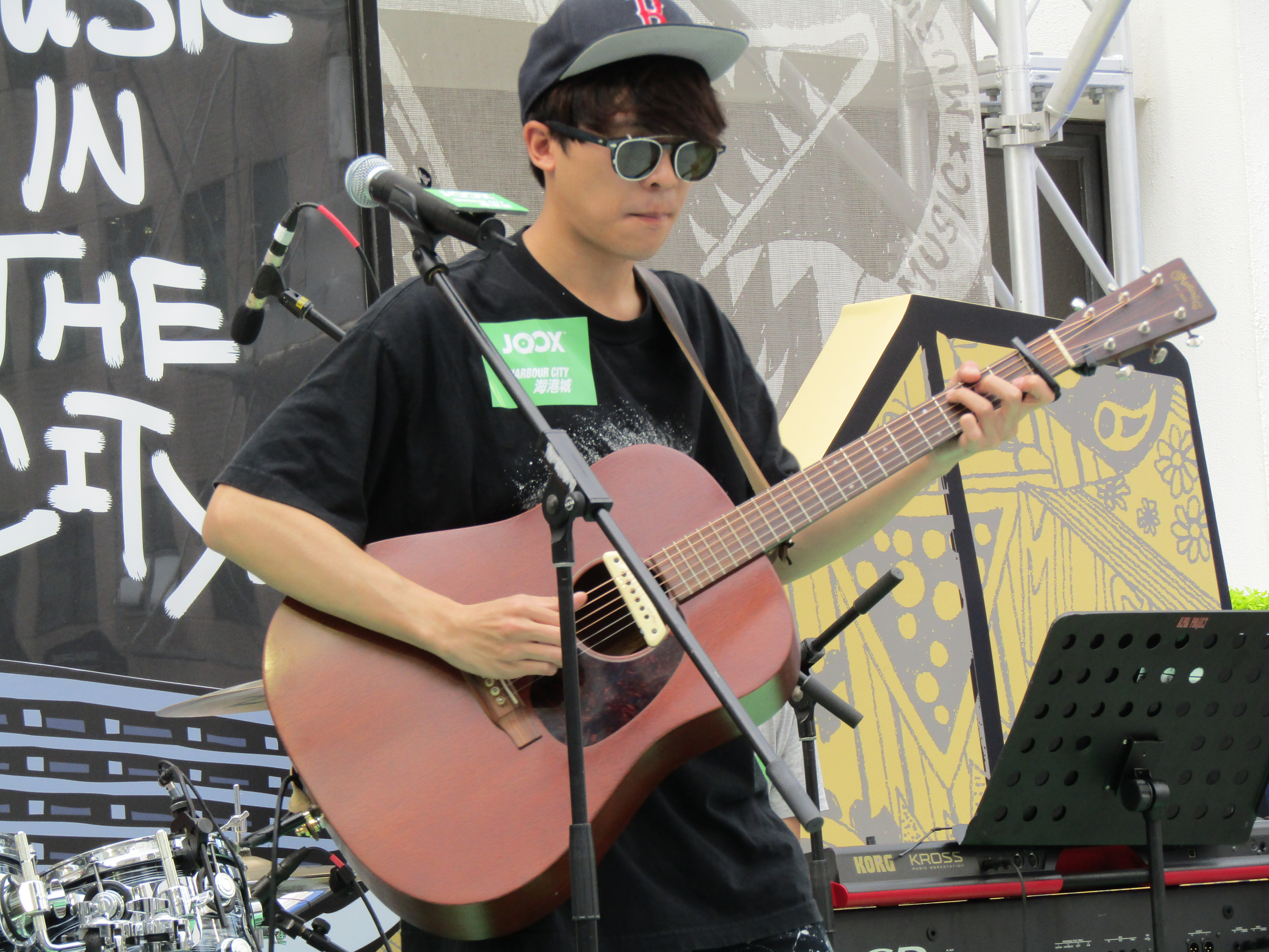 Michael Lai is in The Gateway, Harbour City